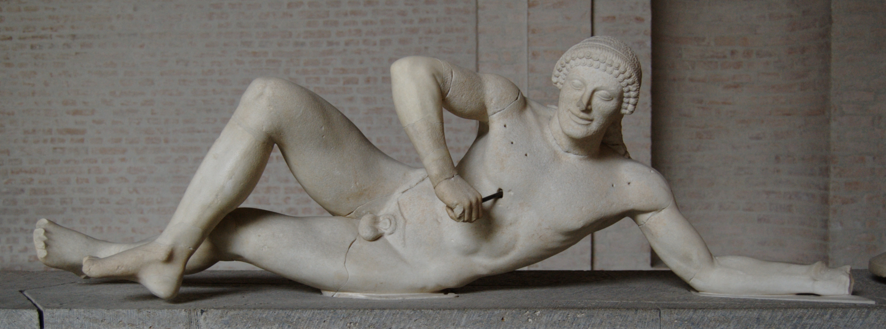 Fallen Trojan warrior, figure W-VII of the west pediment of the Temple of Aphaia, ca. 505–500 BC.